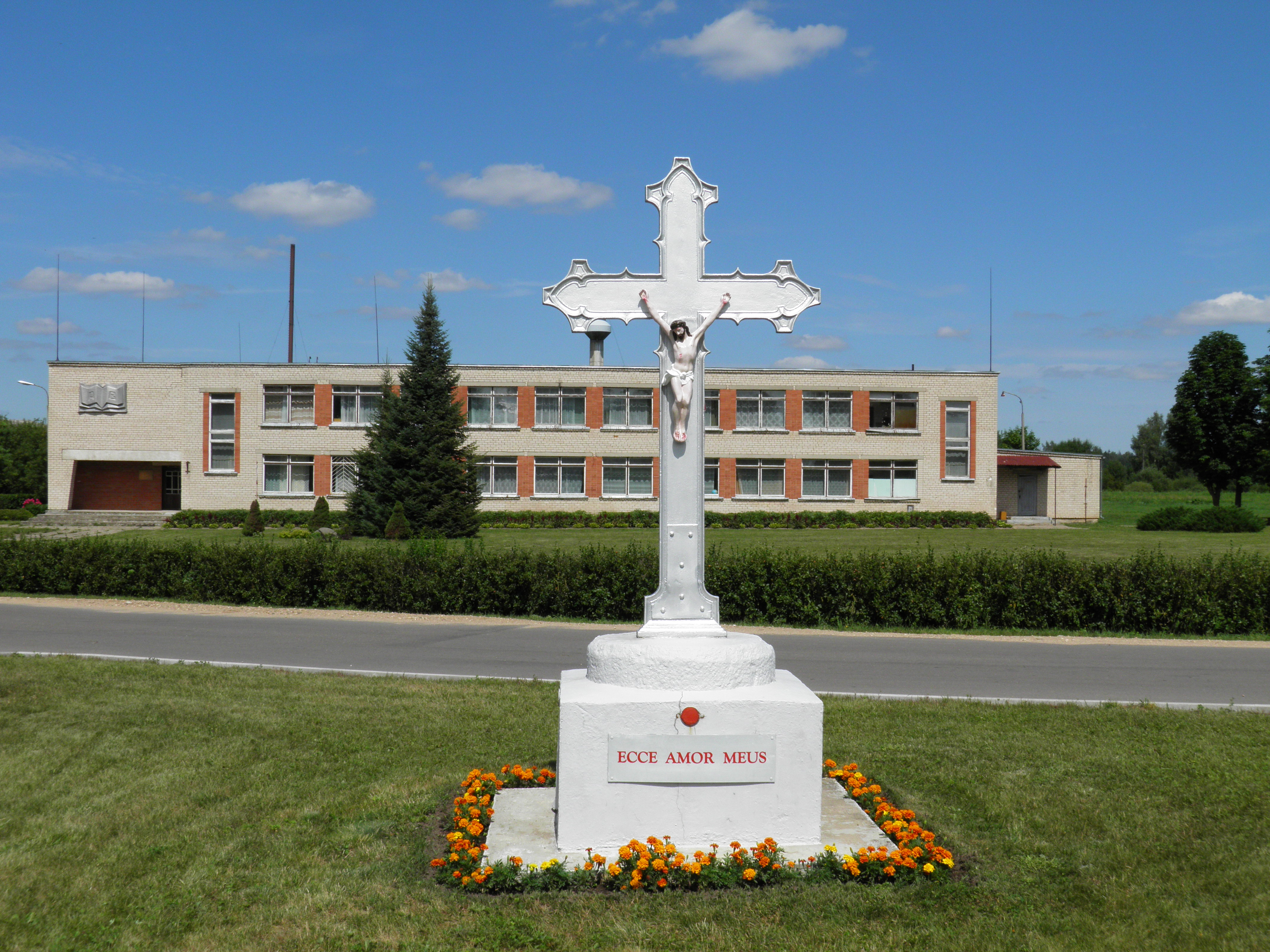 crusifikss